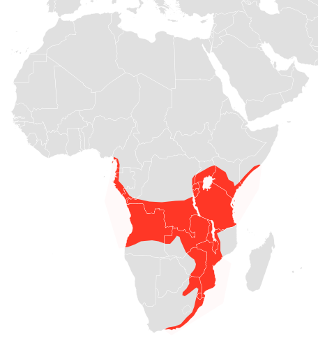 Distribution of Epomophorus wahlbergi